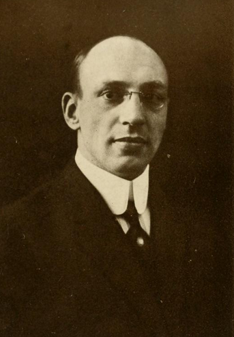 Dexter W. Draper picture in The Colonial Echo 1914, The College of William & Mary yearbook